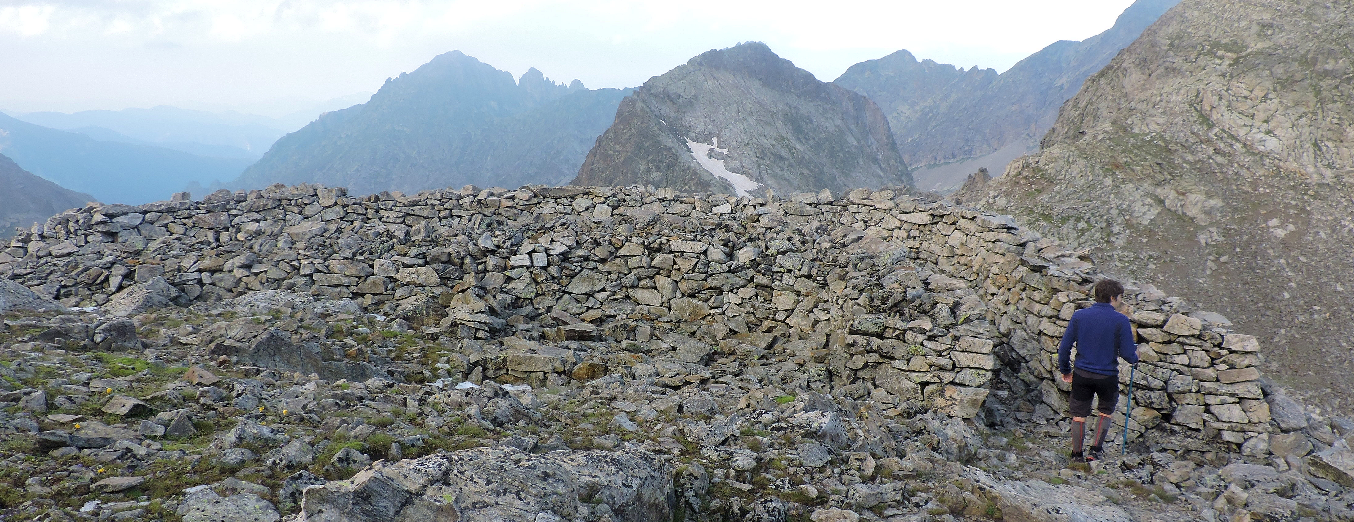 Stone trench between Cima Pagarì and Passo Pagarì (French-Italian Border)